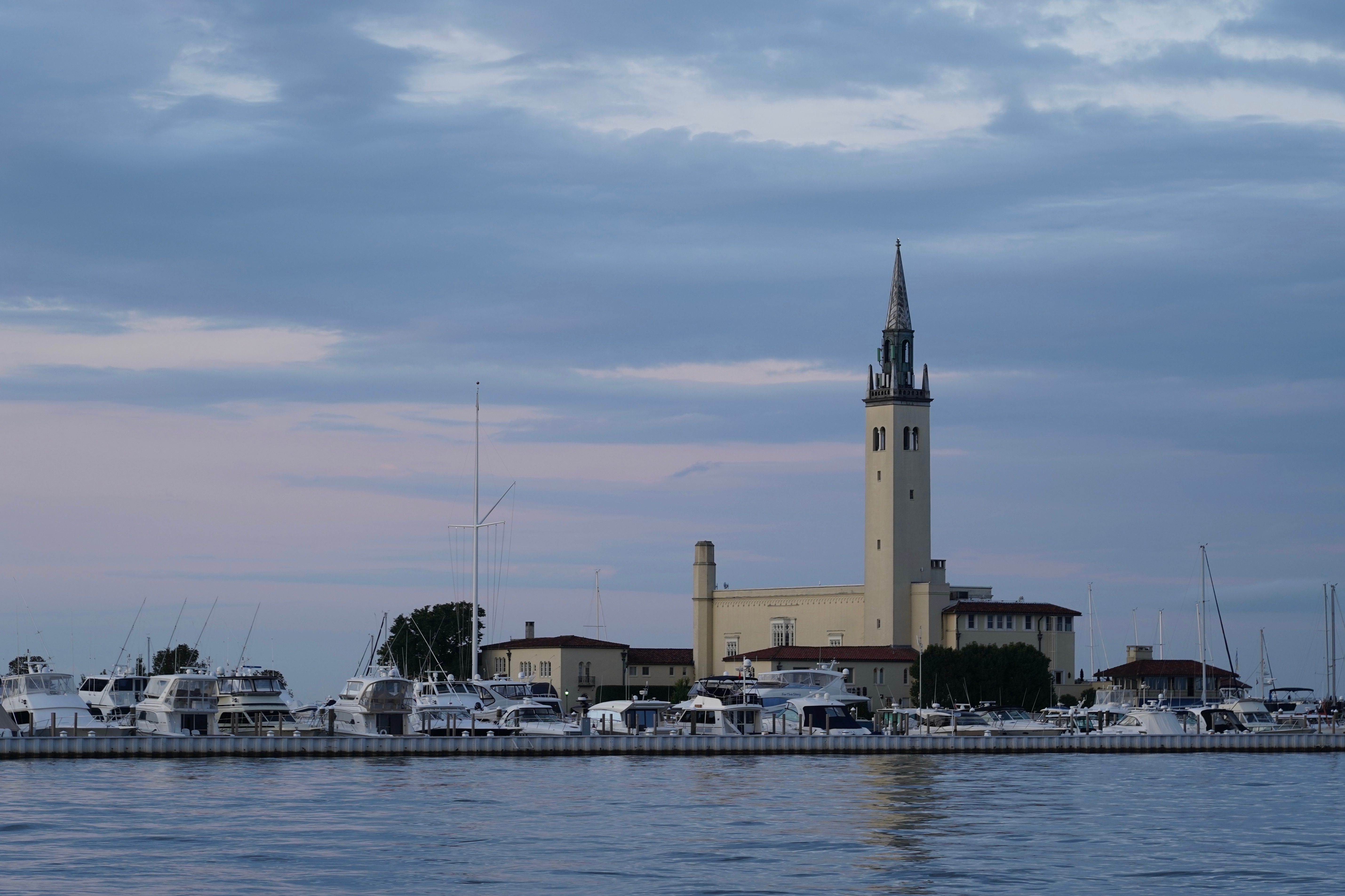 Grosse Pointe Yacht Club before sunset on Labor Day. September 2, 2019. Listed on the National Register of Historic Places on January 7, 2015.